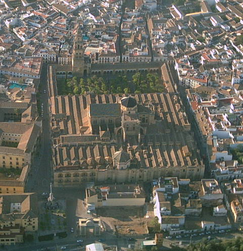 Air photograph of the Great Mosque of Cordoba